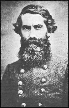 Civil War era photo of W. H. T. Walker, CSA general